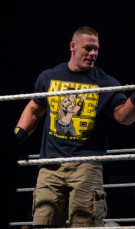 John Cena in WWE House Show